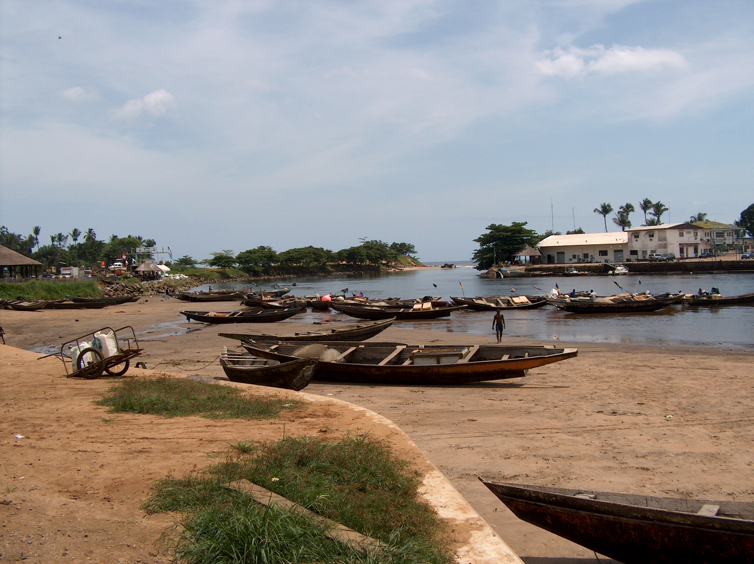 A fishing harbour in Kribi, Cameroon